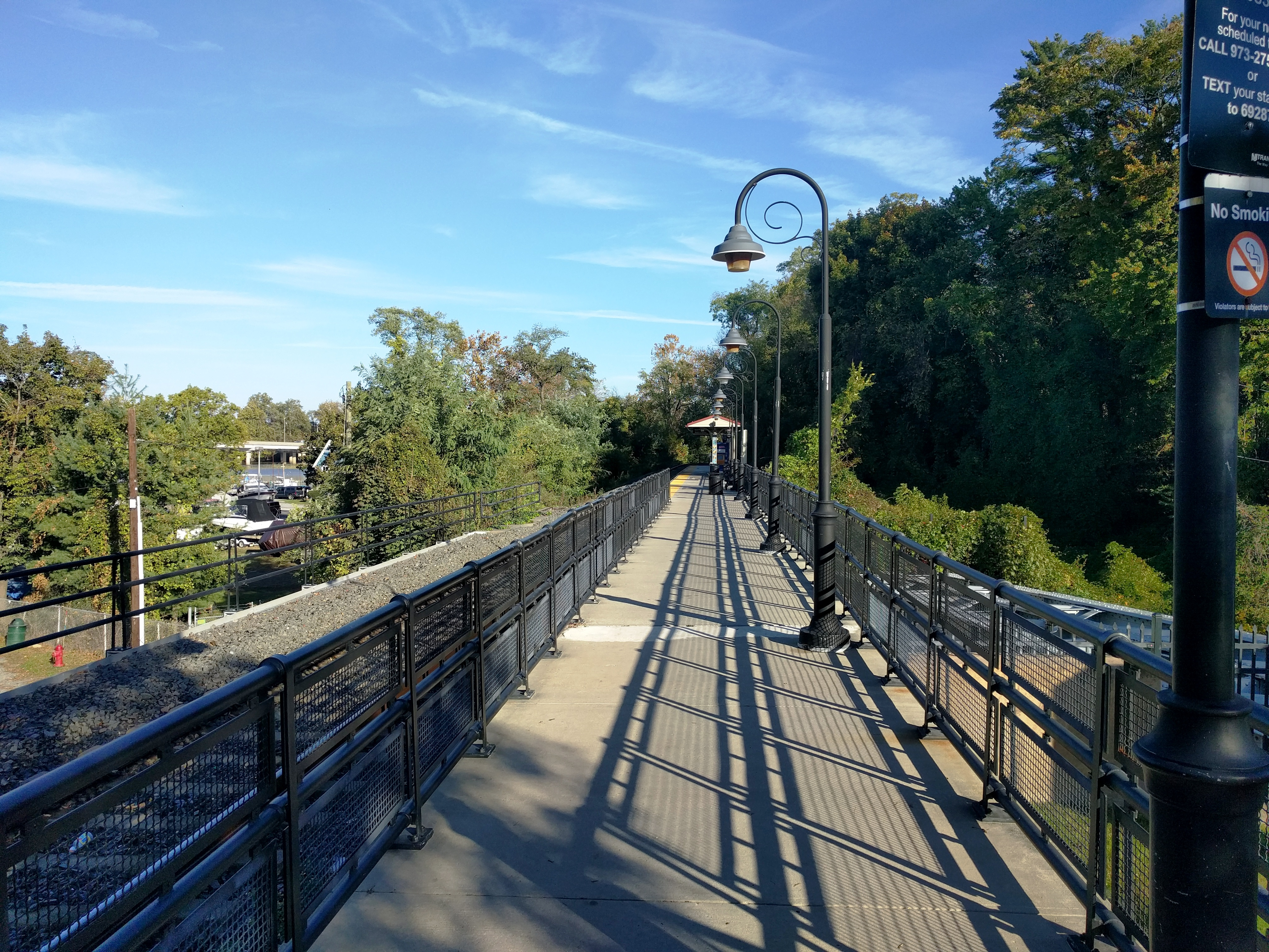 Photo showing the shelter of the Bordentown station along NJ Transit's River Line. Photo taken looking north along the rail line in Bordentown, New Jersey.